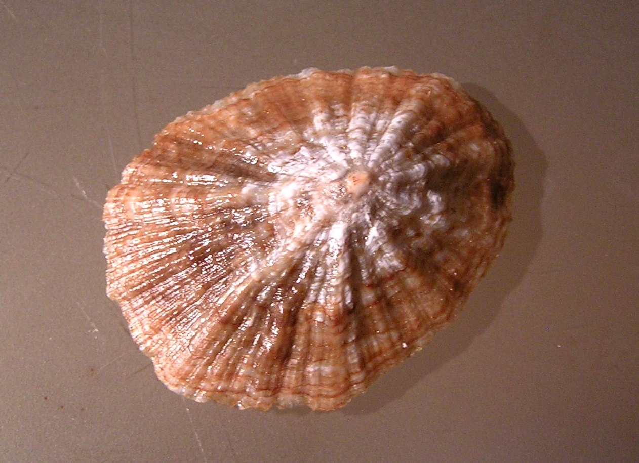 Patella gomesi Drouet, 1858 ; a limpet from the family Patellidae; Azores